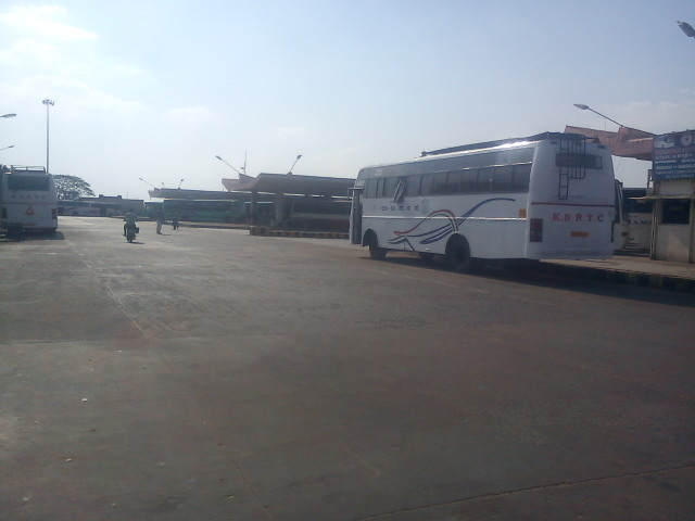 This image denotes mattuthavani integrated bus stand.